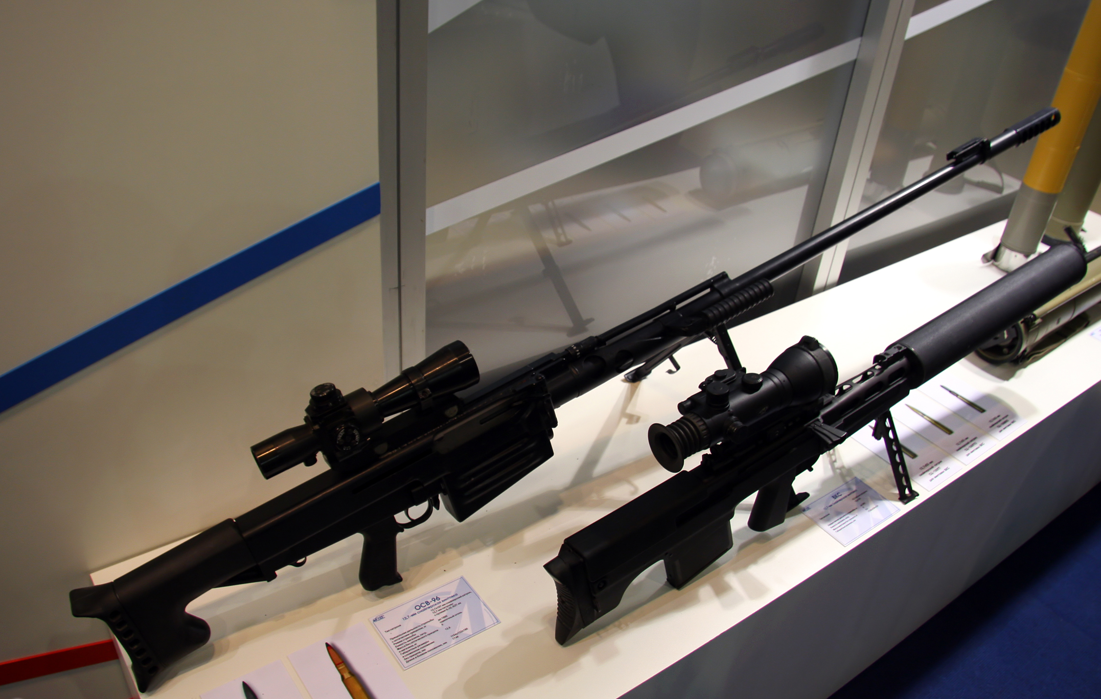 12,7mm OSV-96 and VKS sniper rifles - Interpolitex-2011